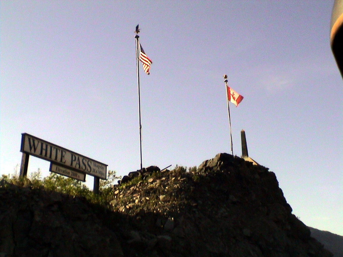 This picture was taken on the White Pass Train as we went from Skagway, Alaska to the Canadian border. Taken in summer 2002.